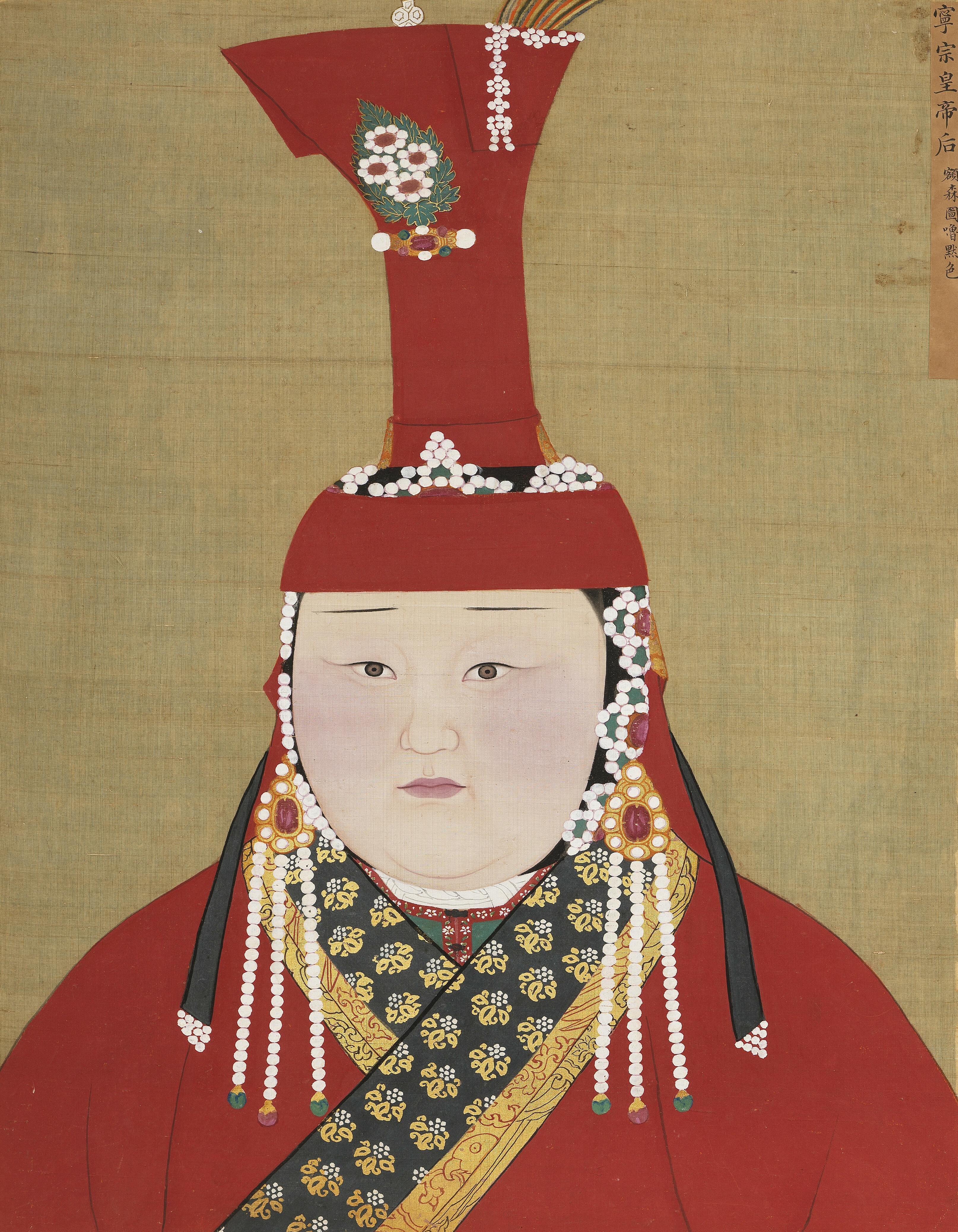 an unnamed wife of Irinchinbal (a.k.a. Ningzong). Paint and ink on silk. Portrait cropped out of a page from an album depicting several consorts of Yuan emperors (Yuandai dihou banshenxiang), now located in the National Palace Museum in Taipei (inv. nr. zhonghua 000325). Original size is 48 cm wide and 61.5 cm high. For the full page, see Image:YuanEmpressAlbumWivesOfIrinchinbalAndQoshila.jpg. Note: Some rows or columns of pixels near the margins of the pic may have been manipulated by me (Yaan) for optics. For an unaltered (except cropping) version, see the image at Image:YuanEmpressAlbumWivesOfIrinchinbalAndQoshila.jpg.